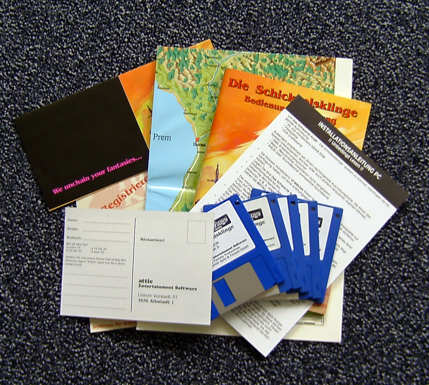 Box contents of video game Das Schwarze Auge Schicksalsklinge PC-DOS